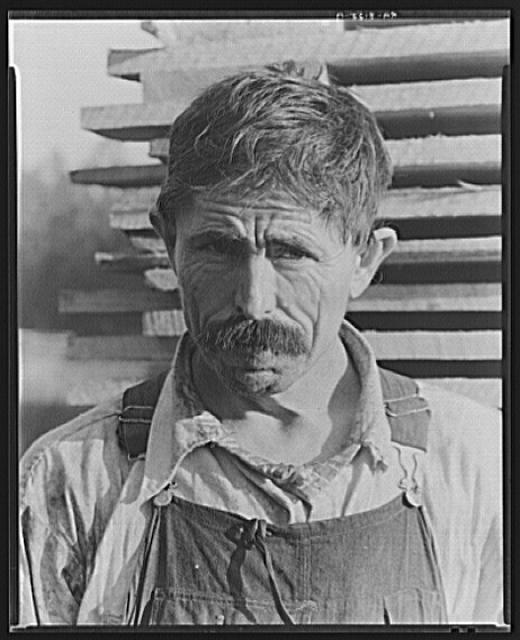 TITLE: Frank Tengle, cotton sharecropper. Hale County, Alabama CALL NUMBER: LC-USF342- 008155-A [P&P] REPRODUCTION NUMBER: LC-USF342-T01-008155-A (b&w film dup. neg.) MEDIUM: 1 negative : nitrate ; 8 x 10 inches or smaller. CREATED/PUBLISHED: [1935 or 1936] CREATOR: Evans, Walker, 1903-1975, photographer. NOTES: Title and other information from caption card. LOT 1604 (Location of corresponding print.) Use electronic surrogate. Transfer; United States. Office of War Information. Overseas Picture Division. Washington Division; 1944. More information about the FSA/OWI Collection is available at TOPICS: Frank Tengle--Alabama SUBJECTS: United States--Alabama--Hale County. FORMAT: Nitrate negatives. PART OF: Farm Security Administration - Office of War Information Photograph Collection REPOSITORY: Library of Congress Prints and Photographs Division Washington, DC 20540 USA DIGITAL ID: (intermediary roll film) fsa 8c52262 CONTROL #: fsa1998020965/PP